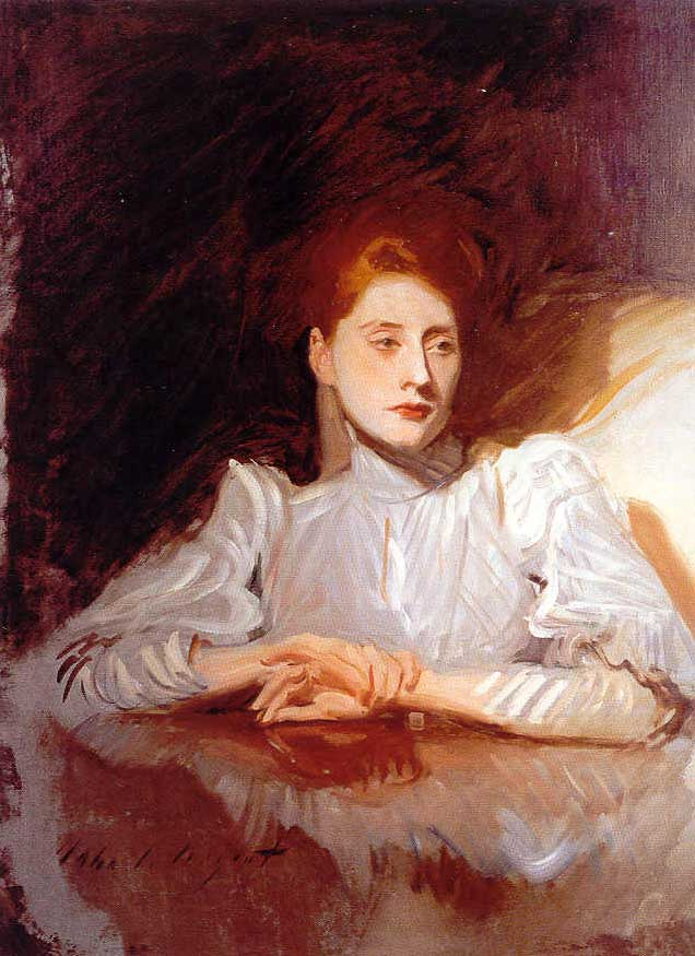 Madame Helleu John Singer Sargent -- American painter c. 1889 Private collection Oil on canvas 102.9 x 82.6 cm (40 1/2 x 32 1/2 in) Jpg: Local